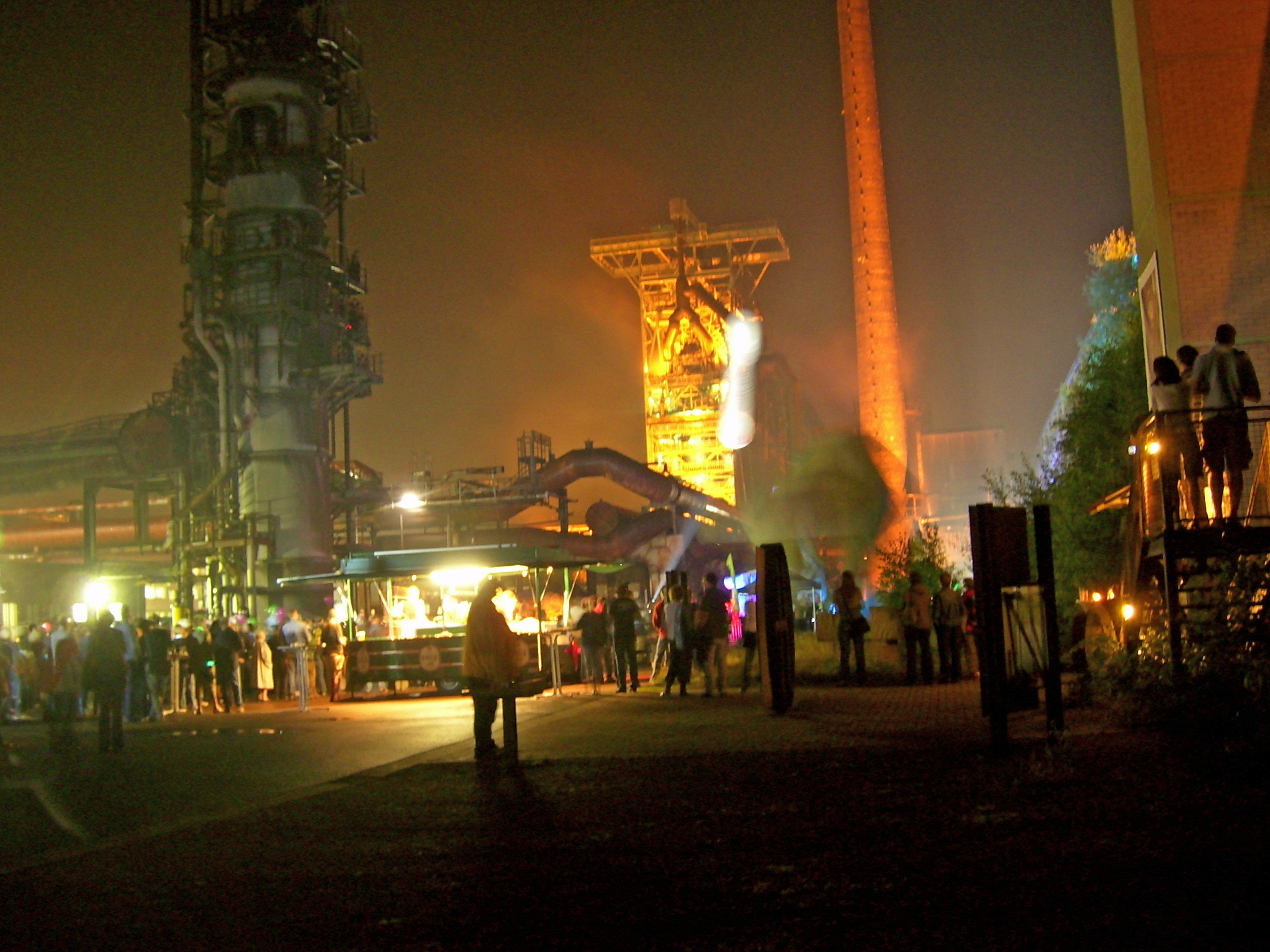 Extraschicht 2009